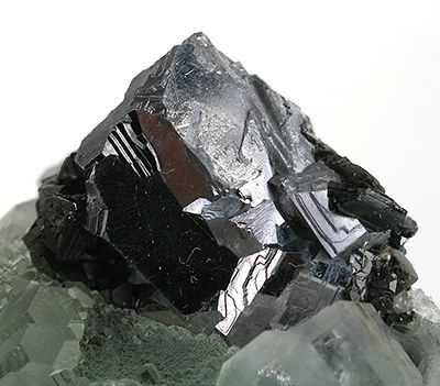 Fluorite, Galena Locality: Gibraltar Mine (incl. "Cave of Swords"), Naica, Municipio de Saucillo, Chihuahua, Mexico (Locality at ) Size: small cabinet, 9.4 x 6.8 x 6.3 cm Fluorite with Galena Large, GEMMY, transparent, green cuboctohedral crystals to a whopping 4 cm, surmounting a knoll-shaped cluster of smaller crystals, also play host to a brilliantly lustrous 2-cm galena crystal! The galena is nestled in a sphalerite embrace, so you have silver on black on green...VERY bright combo, in person! The piece is entirely 100% translucent and is also a floater with a recrystallized break on the bottom contact, and complete even around the backside.